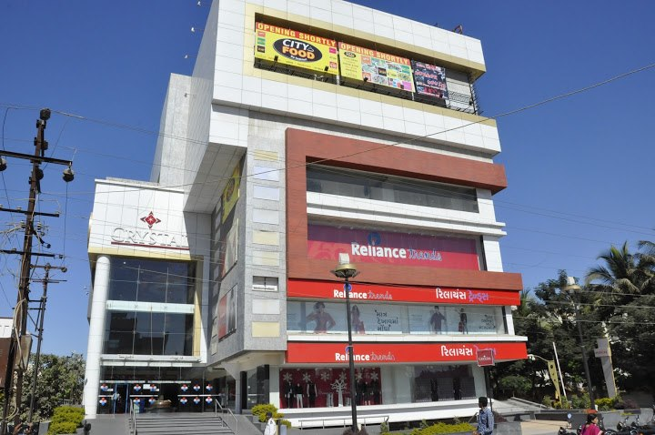 A photo of the newly opened Crystal Mall in Jamnagar.